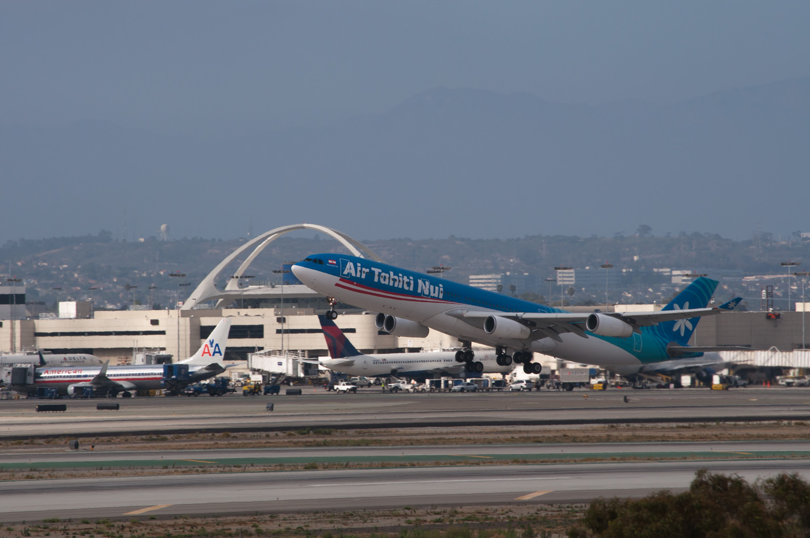 Air Tahiti Nui uses Los Angeles as the refueling stop on its Tahiti-Paris service, and is a frequent sight at LAX. F-OSEA "Rangiroa," Airbus A340-300